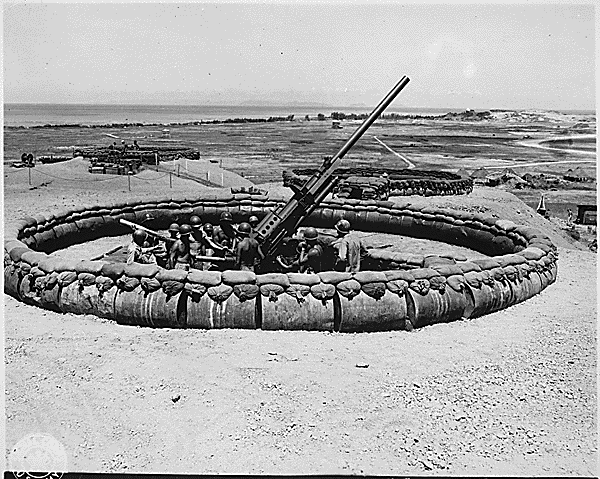 View of #4 90mm Anti-aircraft artillery gun emplacement with crew in pit. "D" Battery, 98th Anti-aircraft artillery Gun Battalion, 137th Anti-aircraft artillery Group Okinawa , 07/18/1945